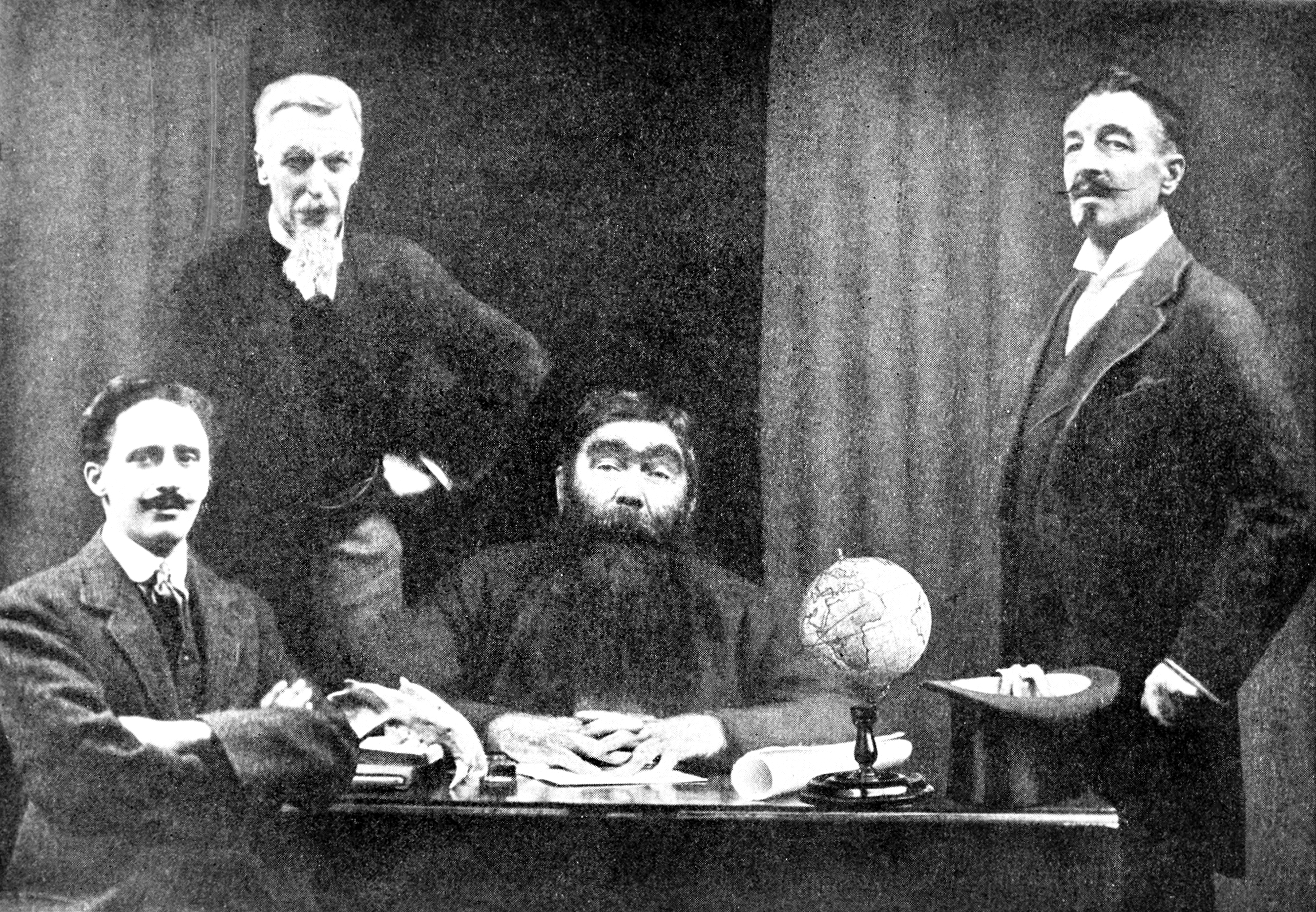 A page scan of The Lost World, a 1912 novel by British writer Arthur Conan Doyle. Image cropped, captions removed. Characters in the book The Lost World. Professor Summerlee, F.R.S.; E. D. Malone (Daily Gazette); Professor G. E. Challenger, F.R.S., F.R.C.S.; Lord John Roxton THE MEMBERS OF THE EXPLORING PARTY. From a photograph by William Ransford, Hampstead.